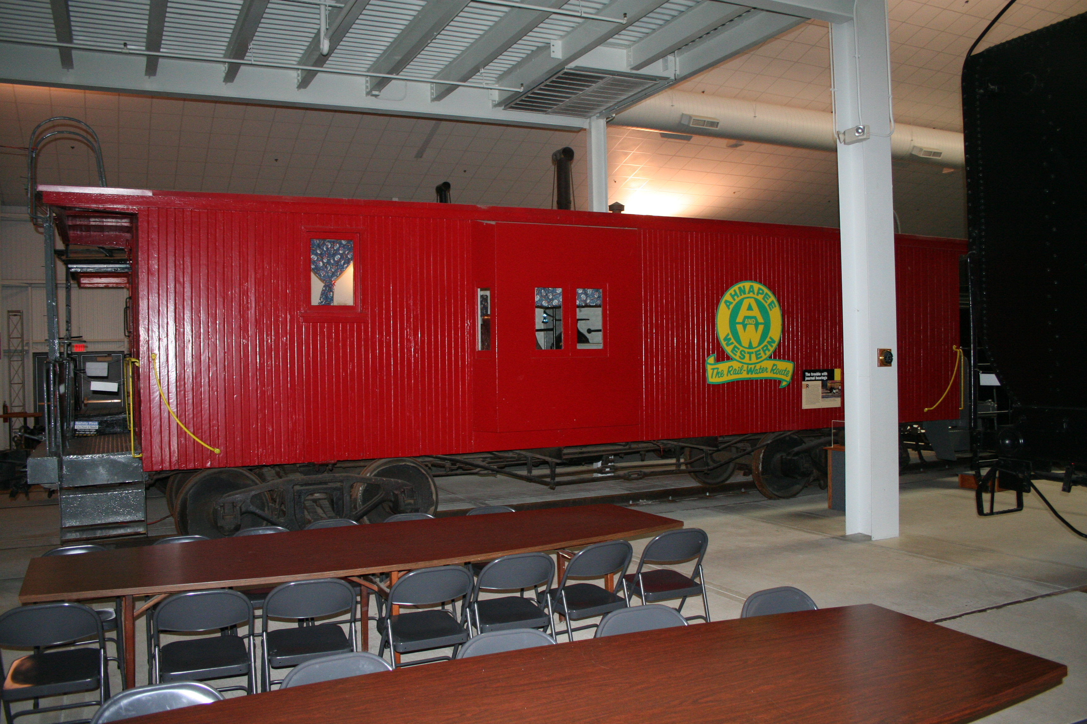 Ahnapee and Western Railway bay window caboose No. 33, National Railroad Museum, Green Bay, WI